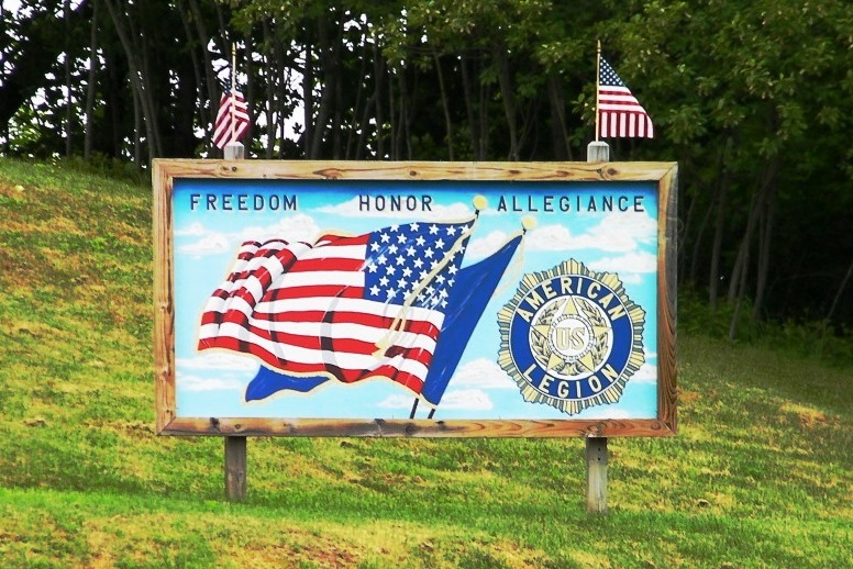 i took this photo on a trip to Maine in 2008